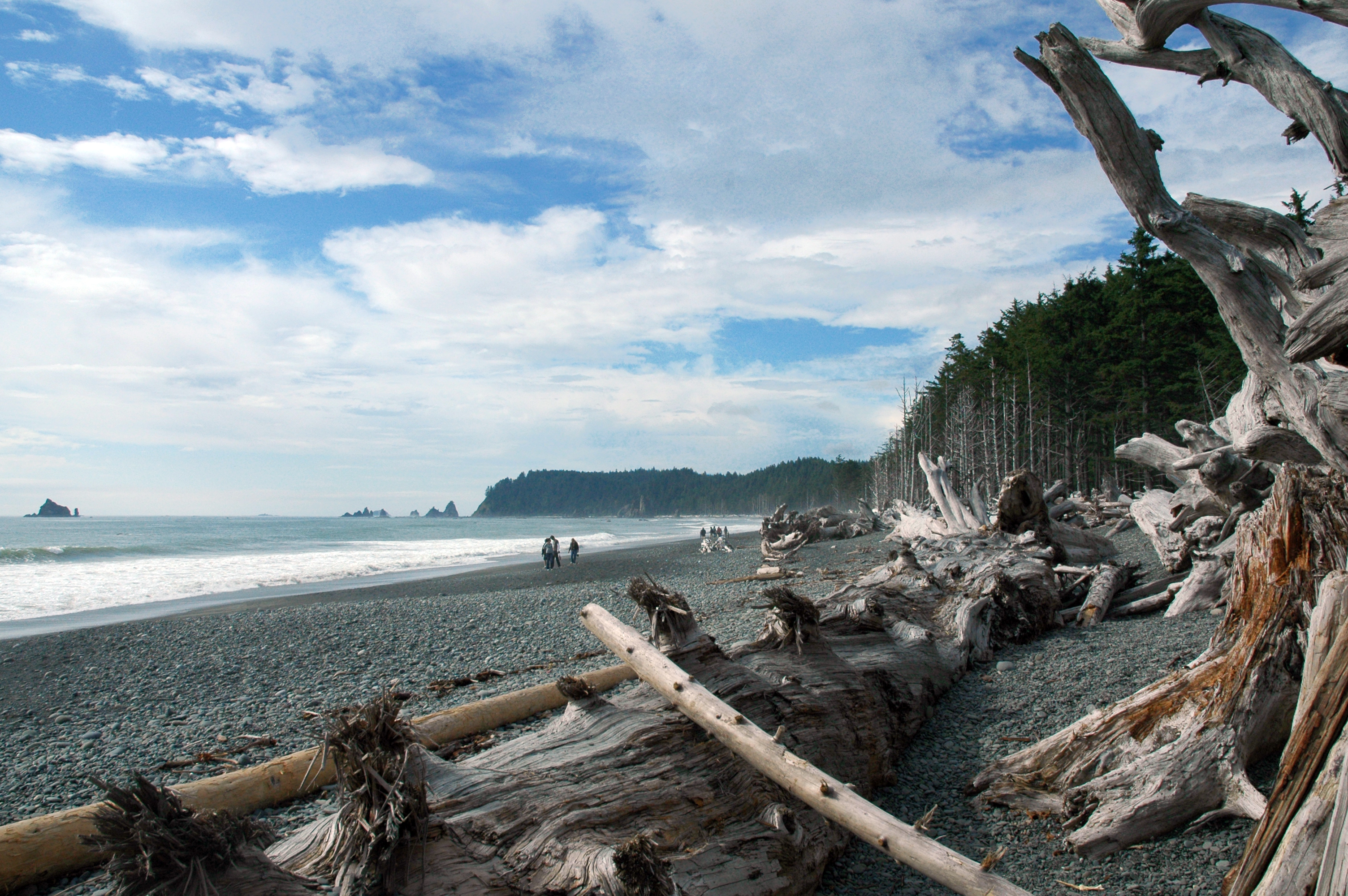 Rialto Beach, Olympic National Park, Washington, looking to the north.